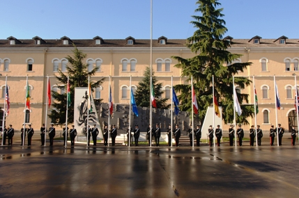 flags coespu